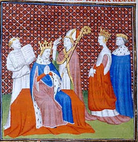 Clotaire III and Bathild.